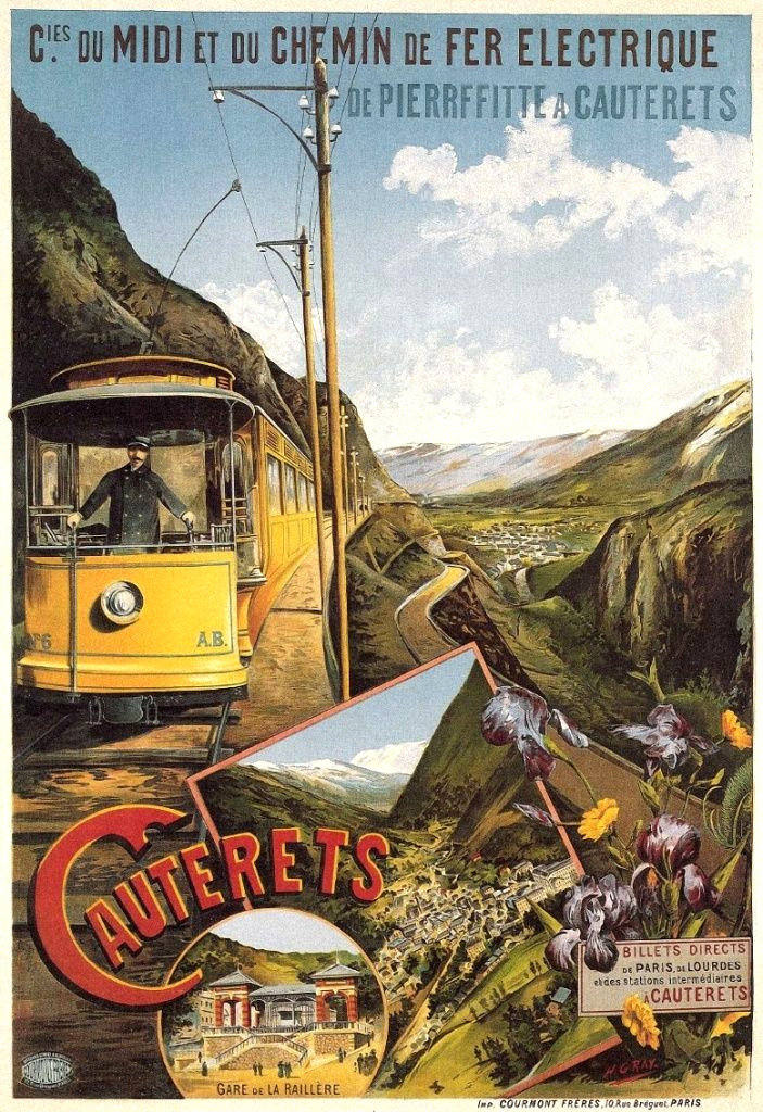 Poster of the Midi and the Pierrefitte & Cauterets railways.